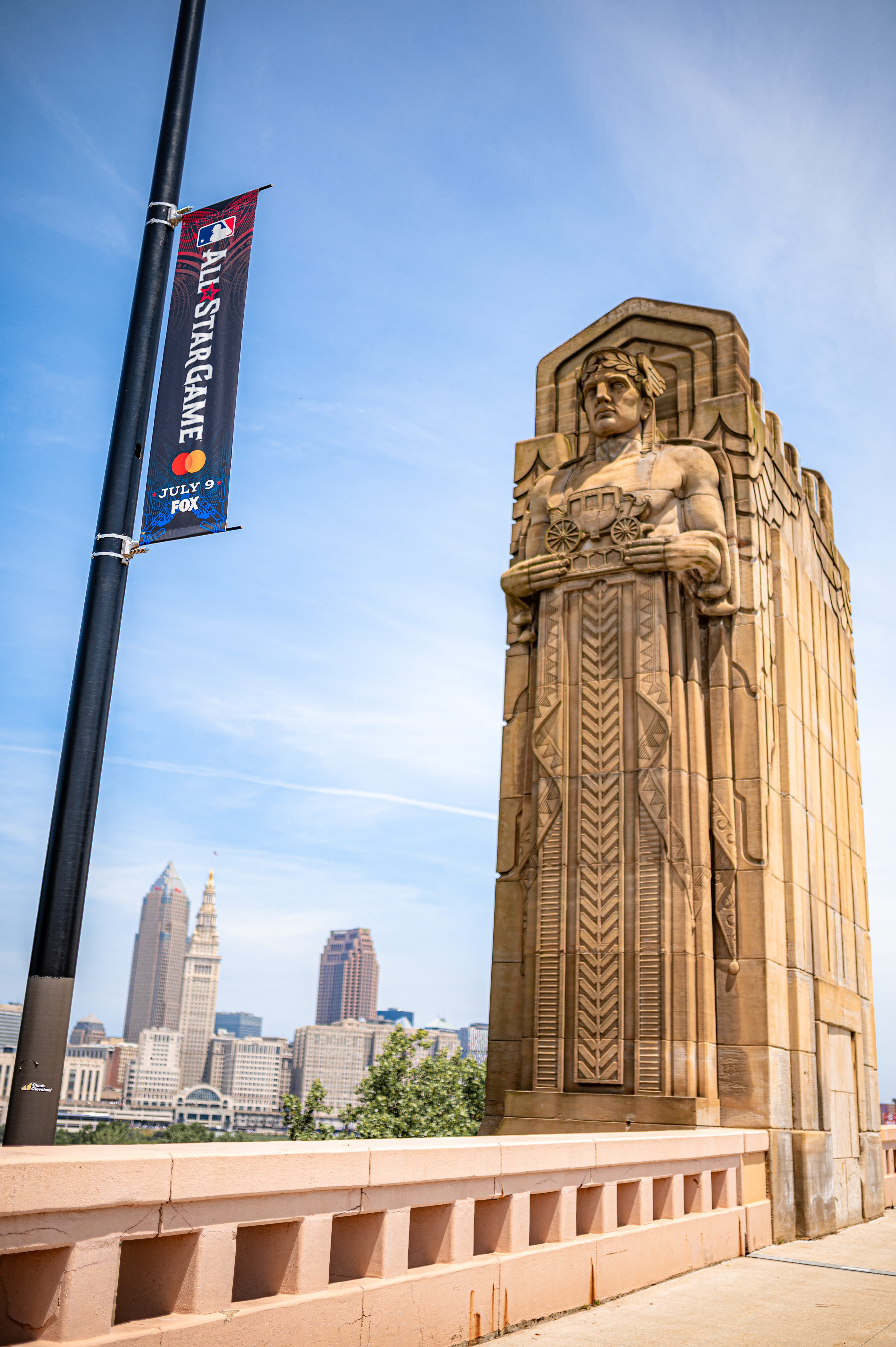 Guardians of Traffic